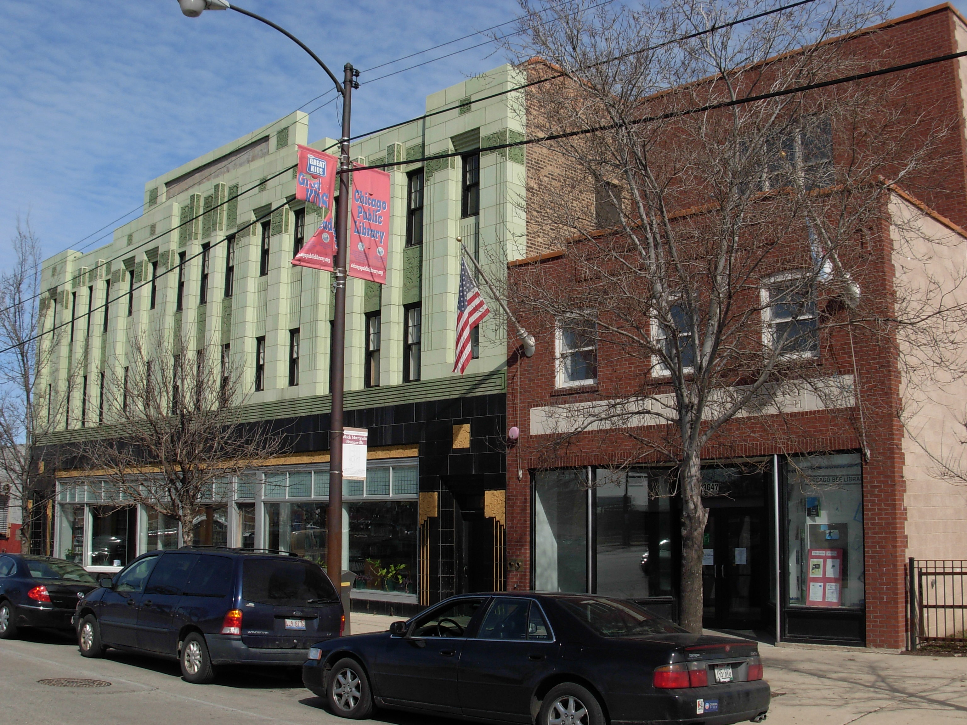 Chicago Bee